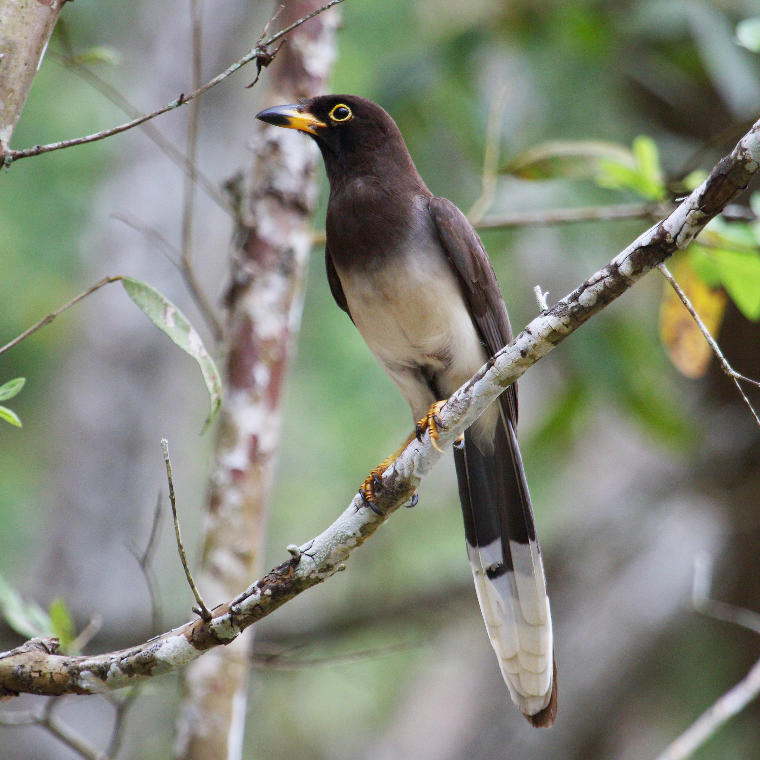 Brown jay, Lamanai, Belize